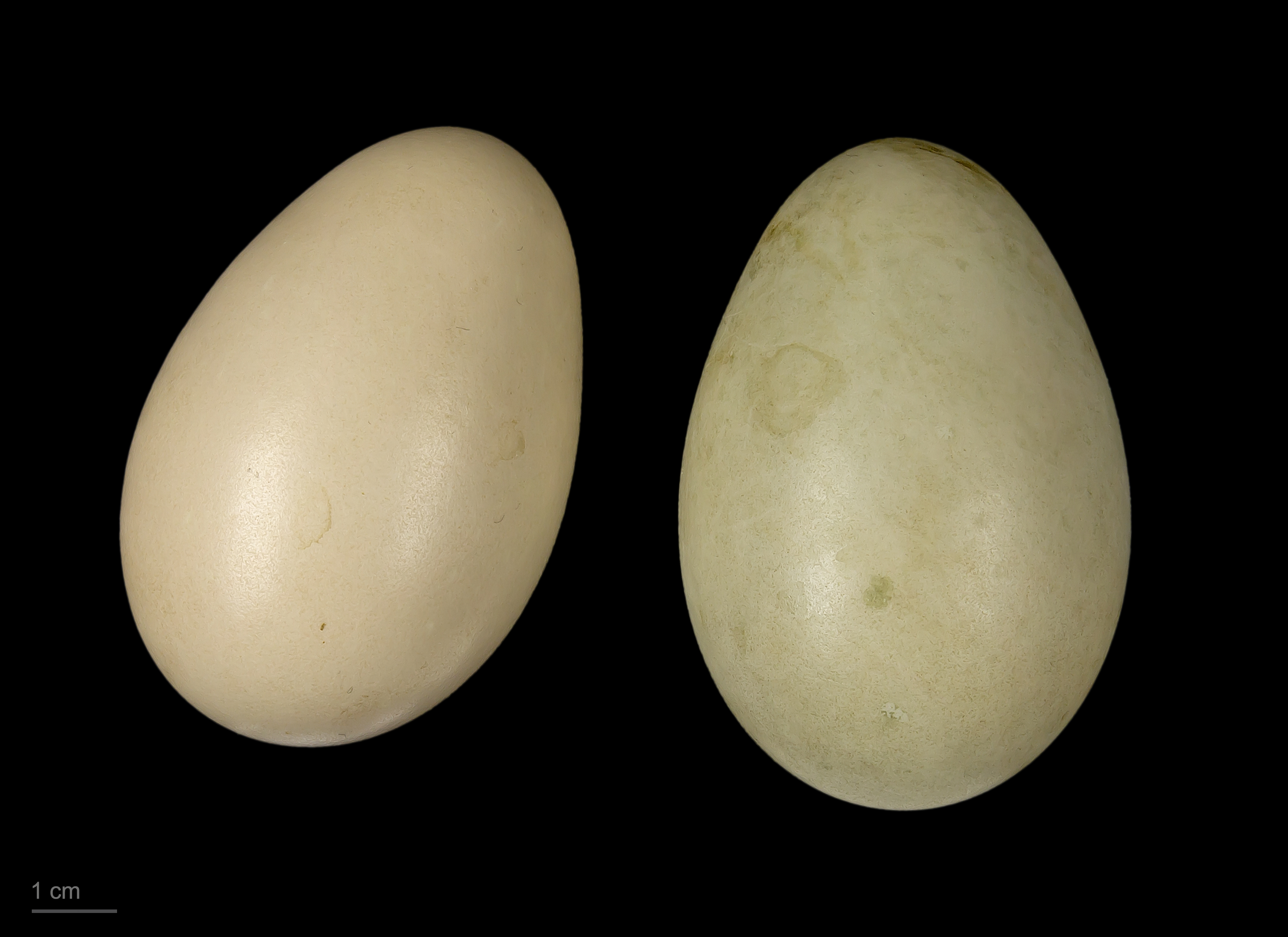 Egg of spectacled eider Collection of Jacques Perrin de Brichambaut.